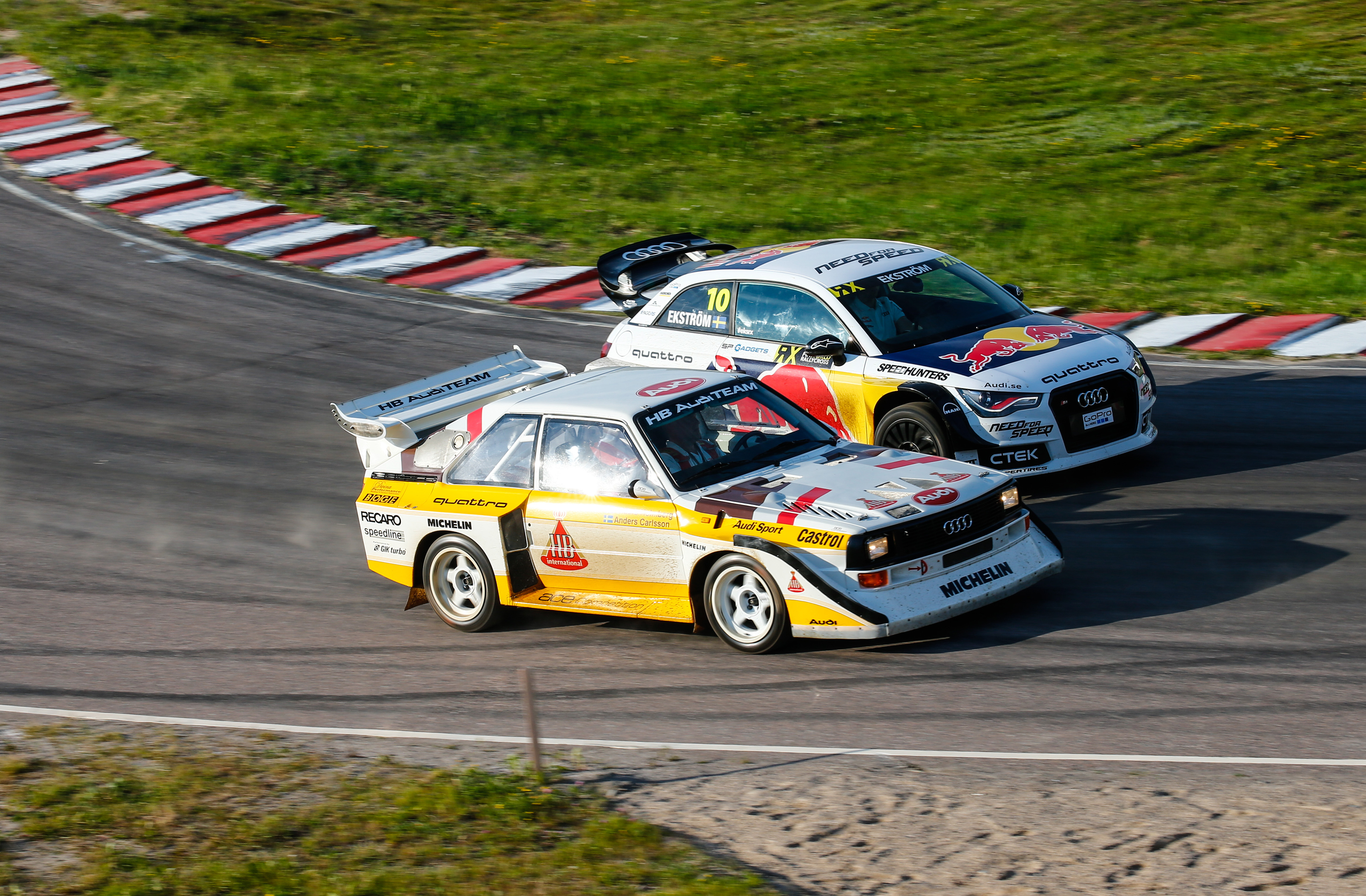 2015 FIA World Rallycross Championship / Round 06, Höljes, Sweden // 3-5 July 2015 // Worldwide Copyright: Colin McMaster/EKS/McKlein